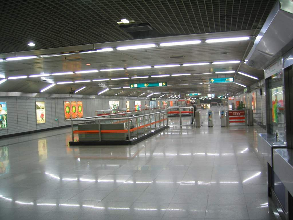 HengShanLu metro station in Shanghai